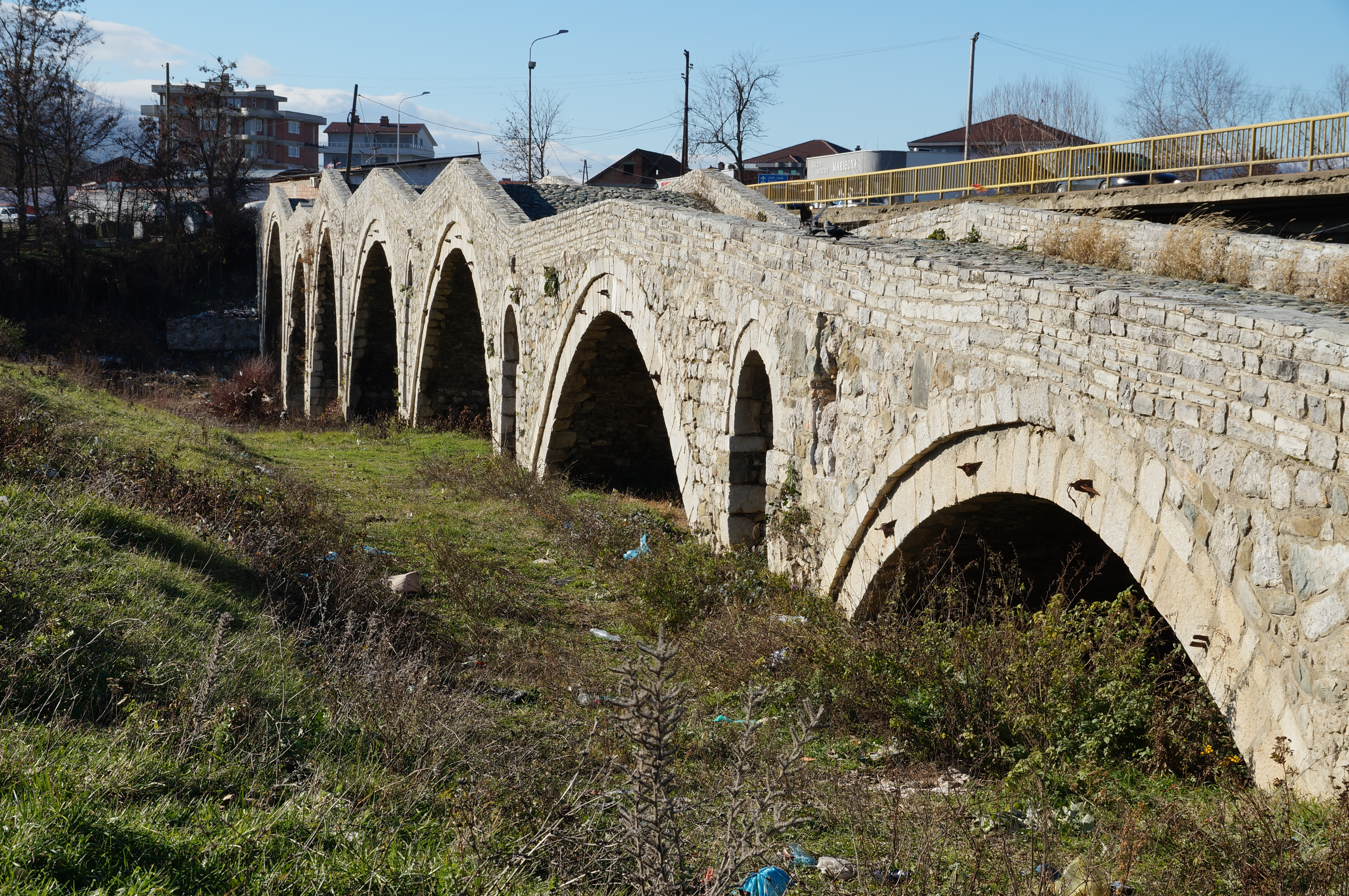 Ura e Tabakëve – ottoman bridge in Gjakova